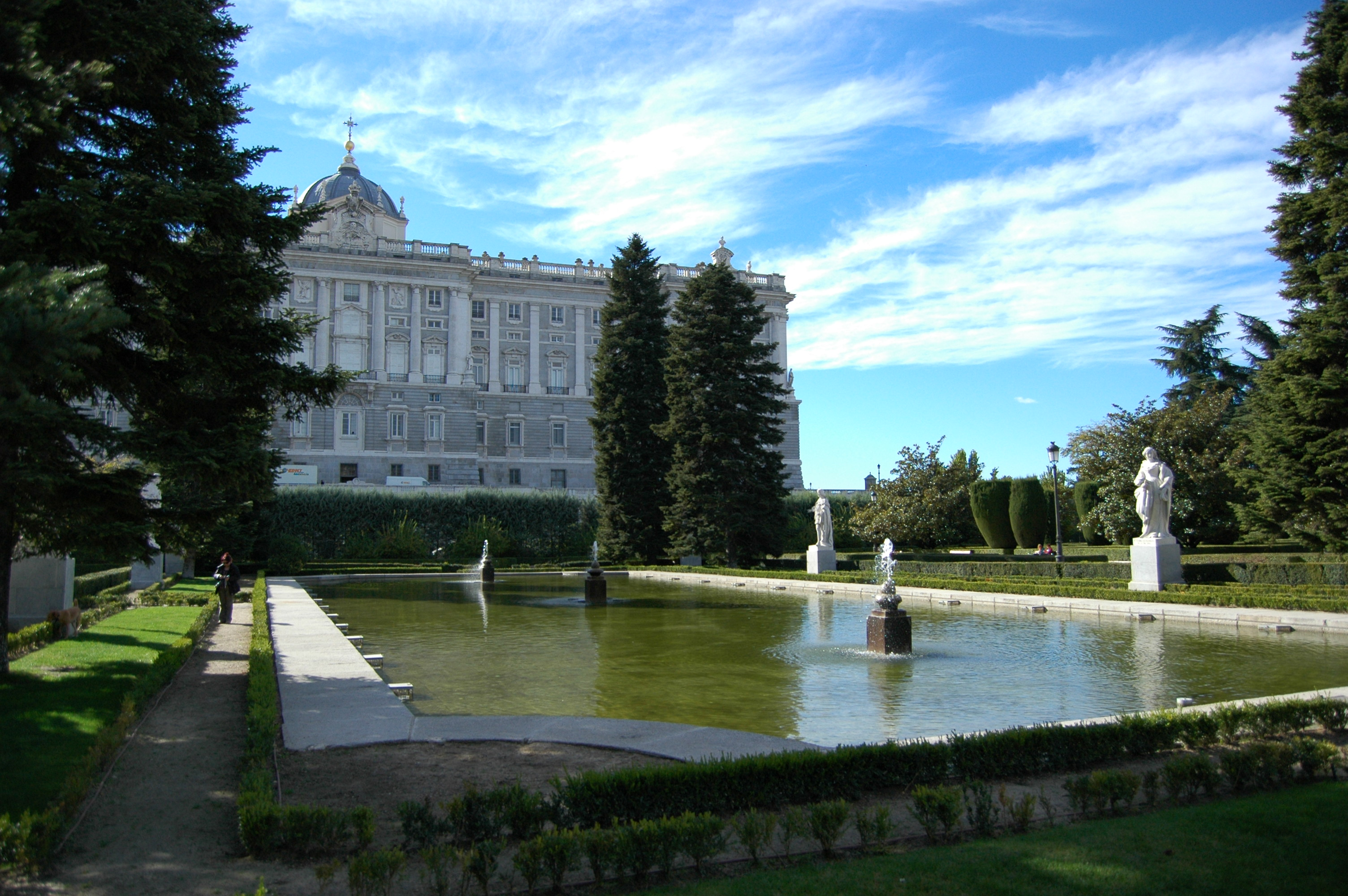 Sabatini Gardens, beside the north façade of the Royal Palace (in the background) of Madrid (Spain).